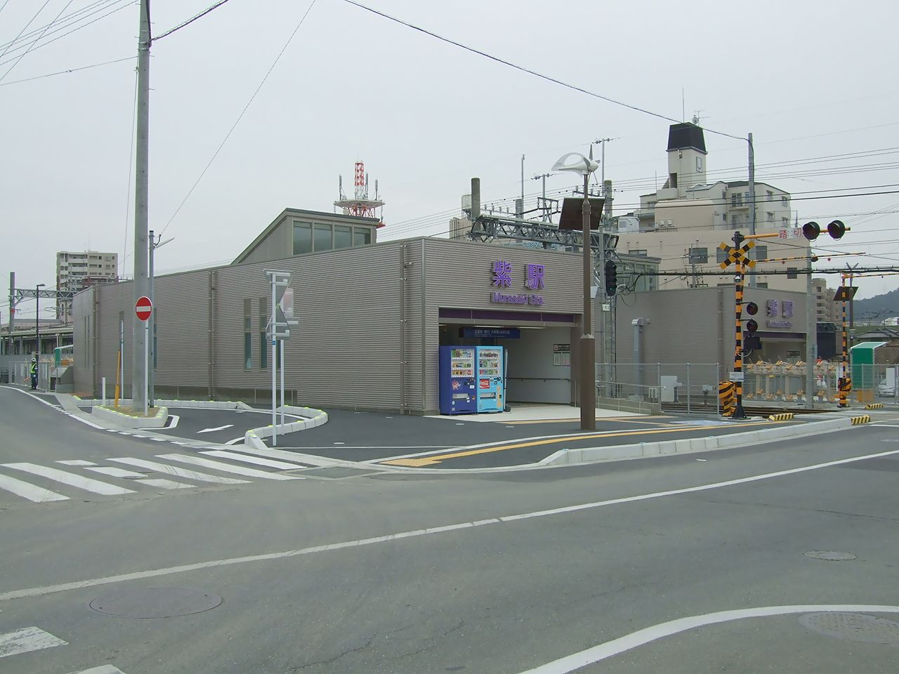 Murasaki Station on the Nishitetsu Tenjin Omuta Line